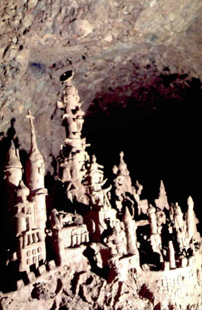 One of the clay castles in the Bolshaya Oreshnaya cave; the sandy clay at the bottom of the cave is very plastic, so visitors sculpt with it